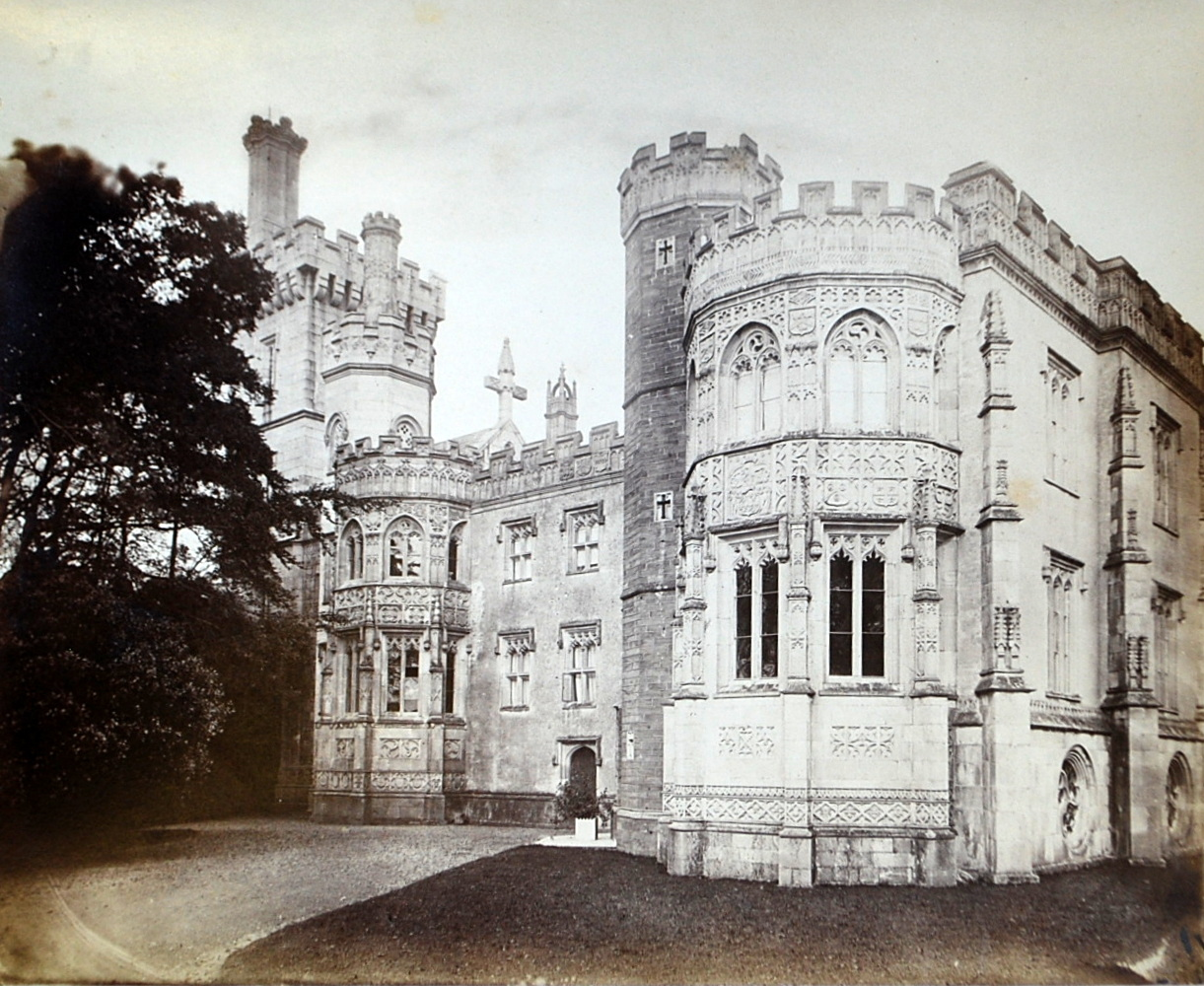 Place Castle, Fowey - south front, anonymous photograph taken about 1870